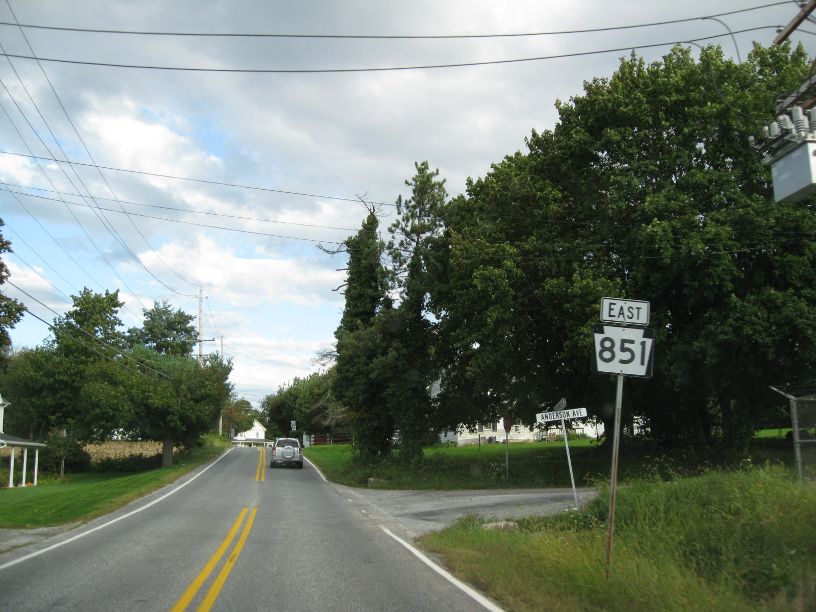 Pennsylvania State Route 851 heading eastbound while approaching the community of New Park. A left turn marker is visible in the distance from the photographer's shot on Anderson Avenue.